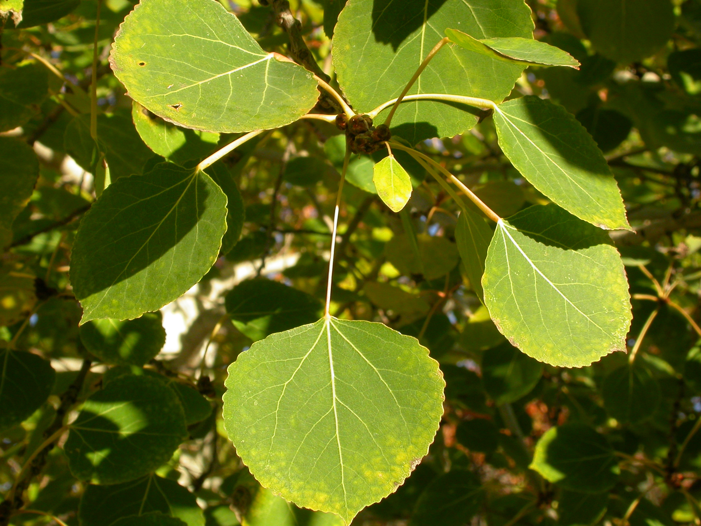 The leaf blades have an orbicular shape.